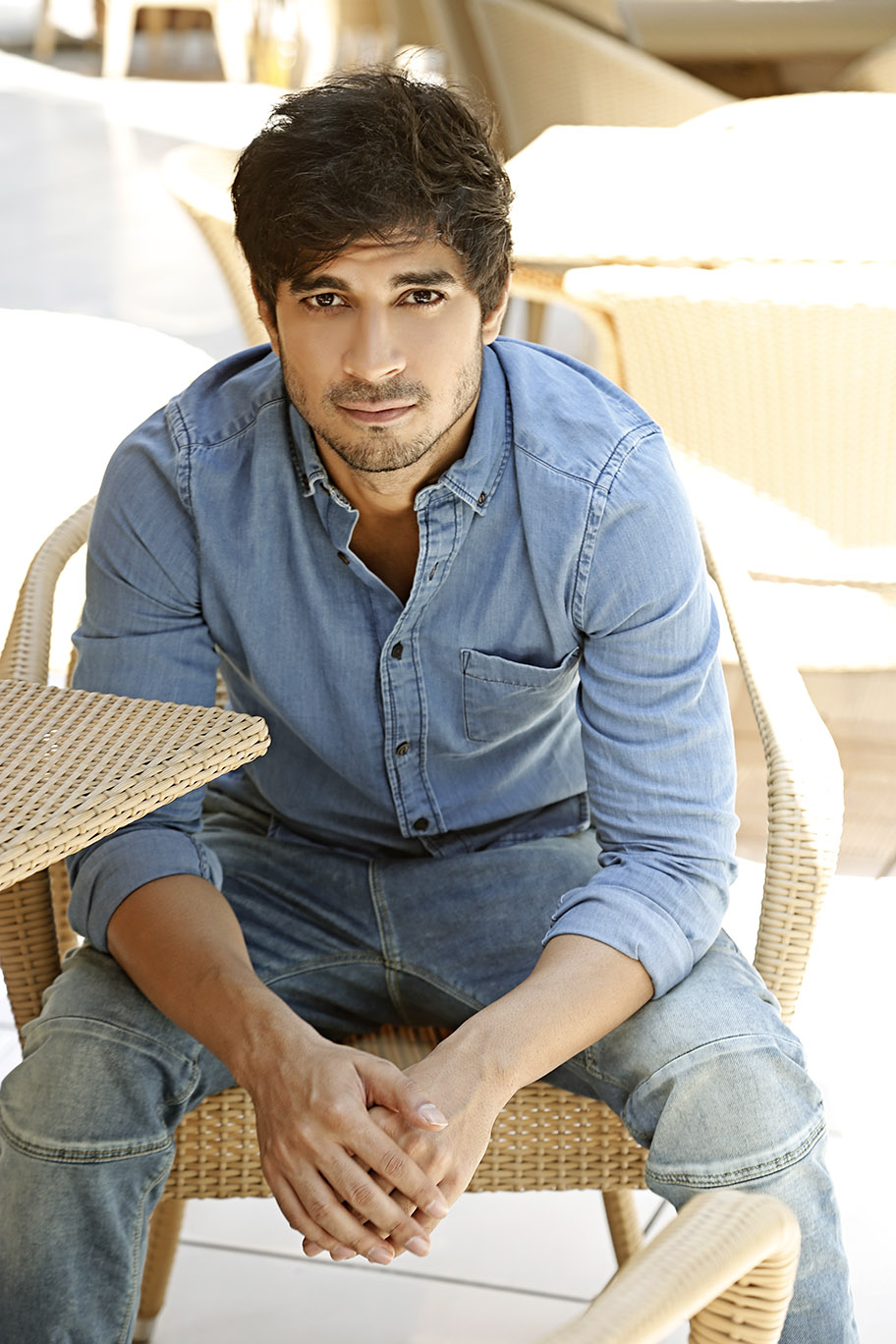 Tahir Raj Bhasin 2016 image